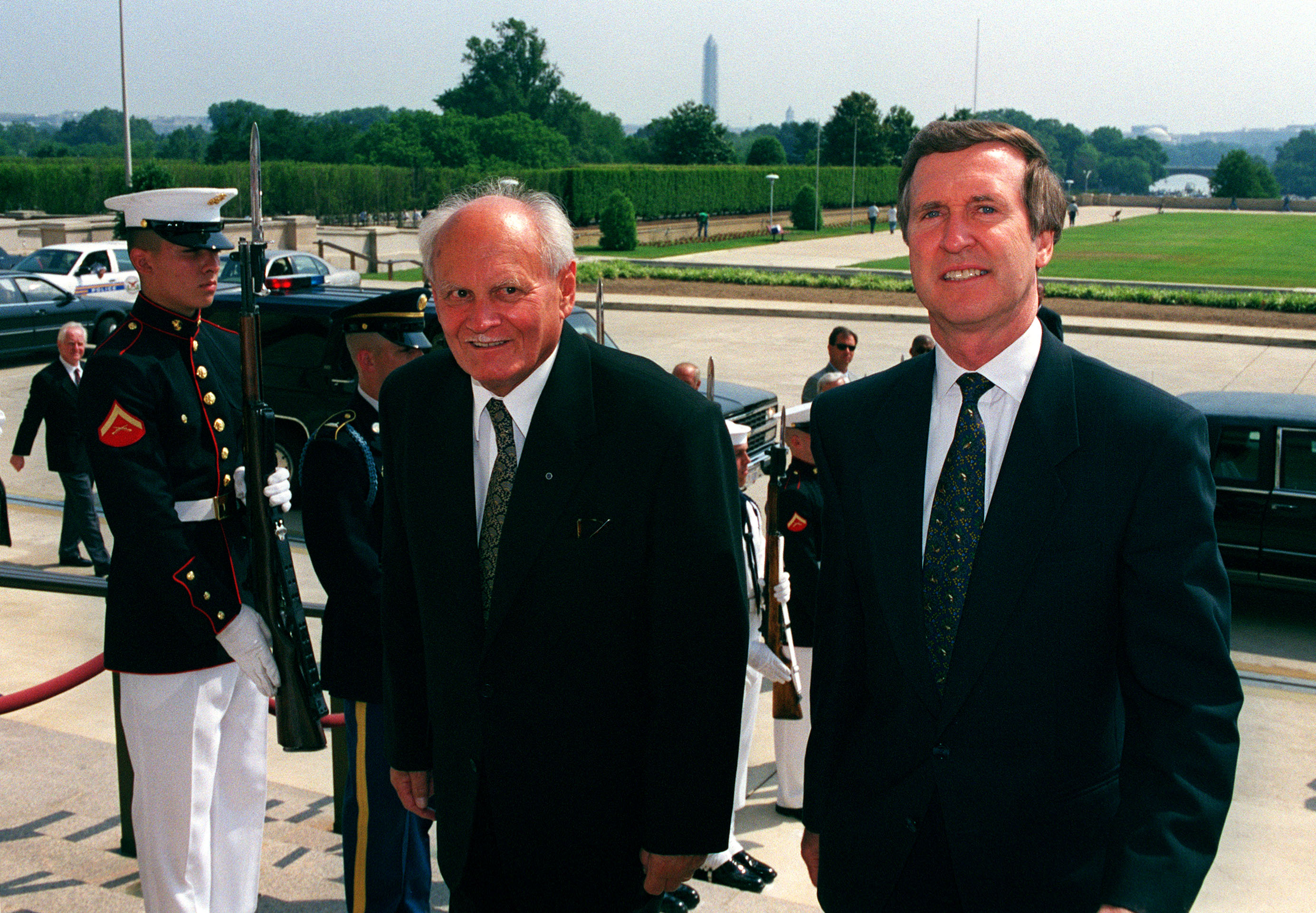 President Arpad Goncz (left), of Hungary, is escorted through an honor cordon into the Pentagon by Secretary of Defense William S. Cohen (right) on June 7, 1999. Goncz will meet with Cohen to discuss a range of issues relating to Hungary's membership in the NATO alliance.